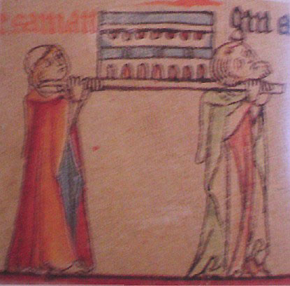 Men carrying a holy casket (also referred to as a 'shrine' or 'reliquary'. One like this may have contained the physical remains of Guðmundur Arason a 12th-13th century Icelandic bishop.